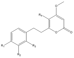 Structure of second class of kavalactones (with 5,6-MDO ring) for use on Kavalactones page. Created in ChemDraw 10.0 by Yidele, July 2007.